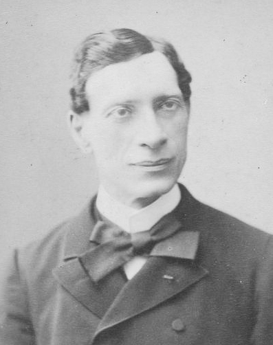 French journalist and historian Édouard Hervé (1835-1899) photographed by Eugène Pirou (1841-1909).